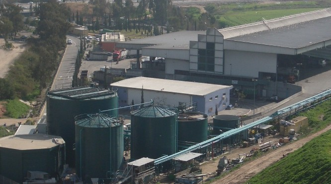 Anaerobic digesters from an ArrowBio Mechanical Biological Treatment facility in Tel-Aviv, Israel, taken 2006 by Alex Marshall